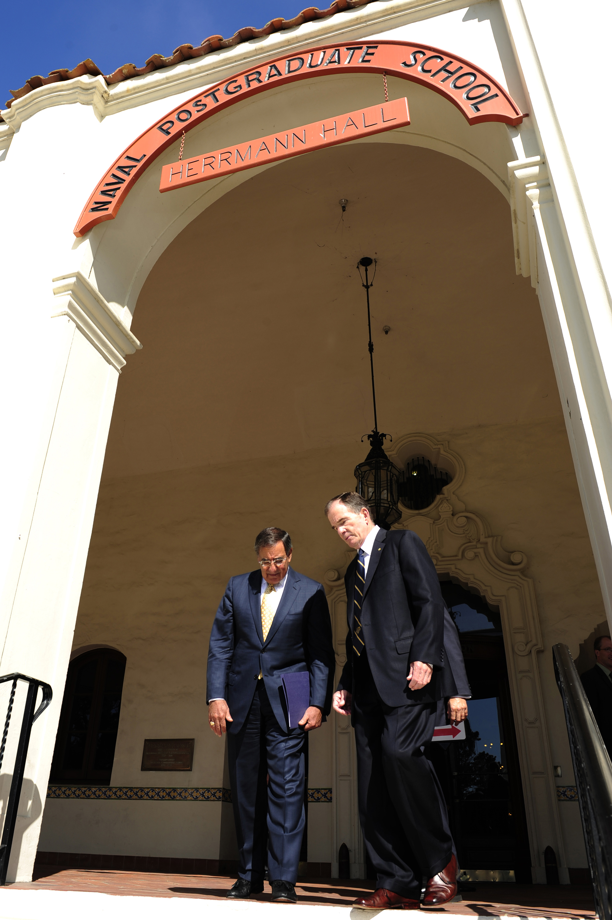 Defense Secretary Leon E. Panetta walks with Daniel T. Oliver, president of the Naval Postgraduate School at Monterey, Calif., on Aug. 23, 2011.